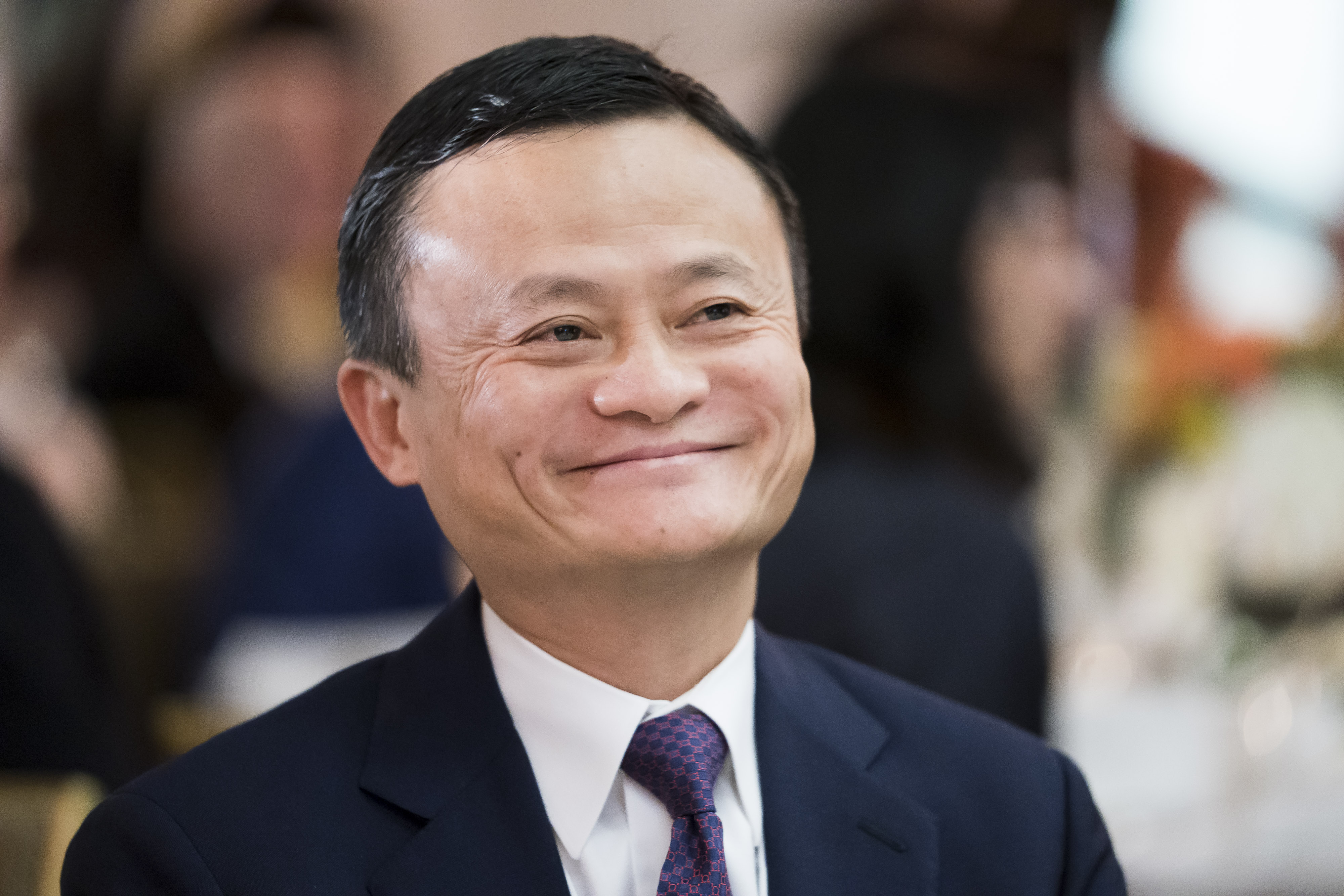 Jack Ma attends the 20th Anniversary Schwab Foundation Gala Dinner on September 23, 2018 in New York, NY USA. Copyright by World Economic Forum / Ben Hider